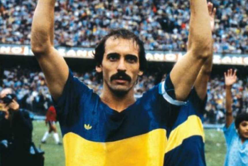 Vicente Pernía playing at Boca Juniors (1973-1982, possibly in the early 70's).